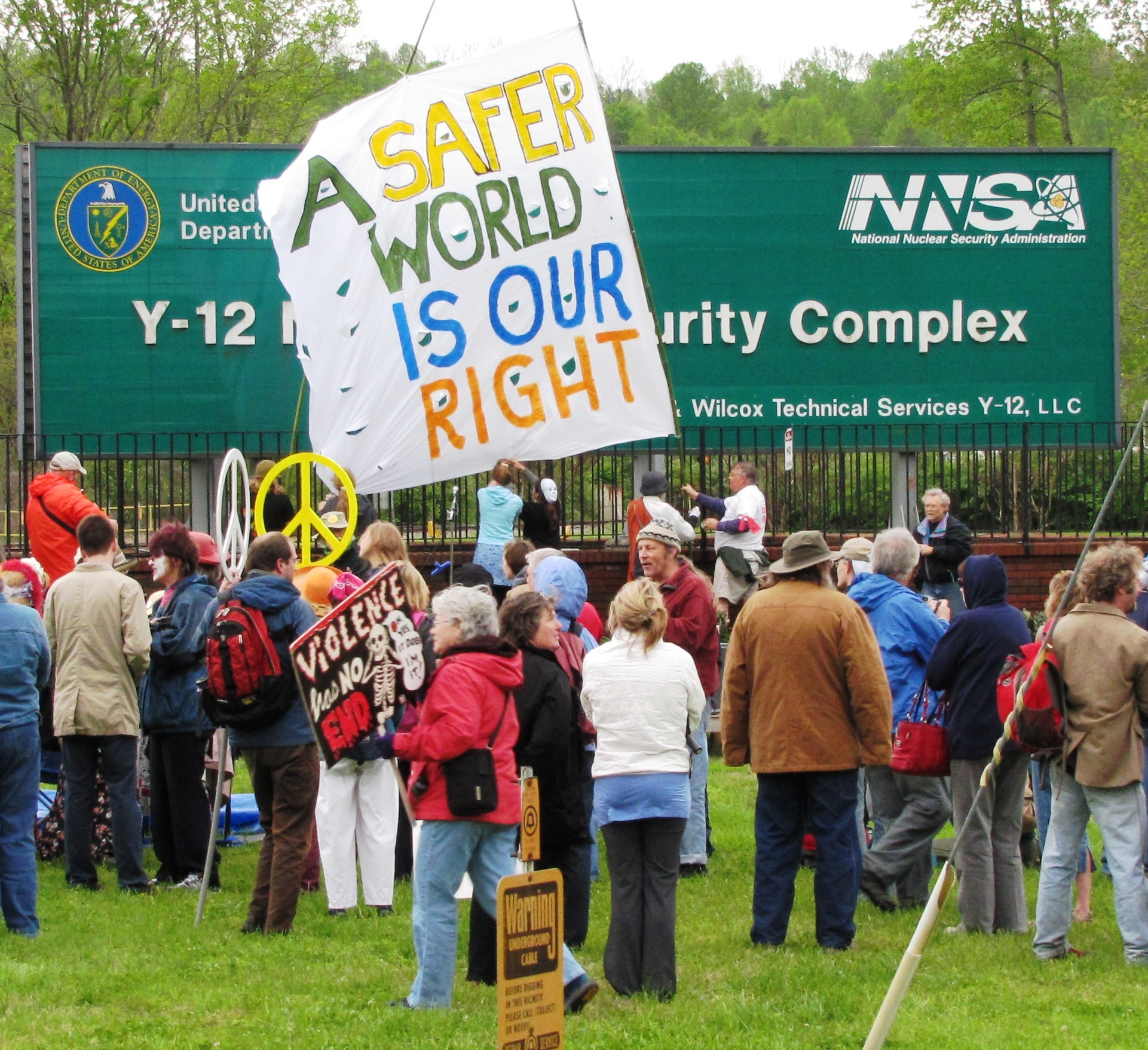 Anti-nuclear arms protesters display a banner during the Oak Ridge Environmental Peace Alliance (OREPA) rally at the Y-12 National Security Complex in Oak Ridge, Tennessee, USA.